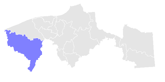 Huimanguillo, Tabasco. Hecho con Microsoft Paint